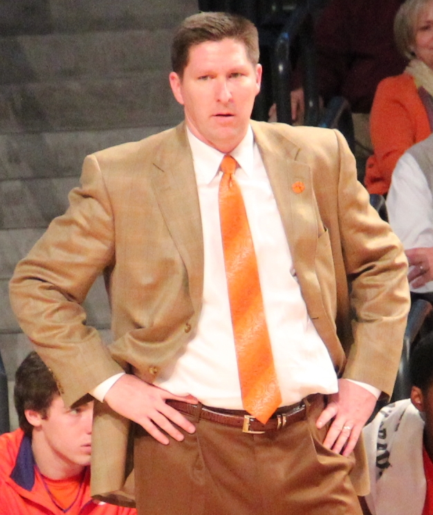 Clemson Tigers men's basketball coach Brad Brownell, 2013